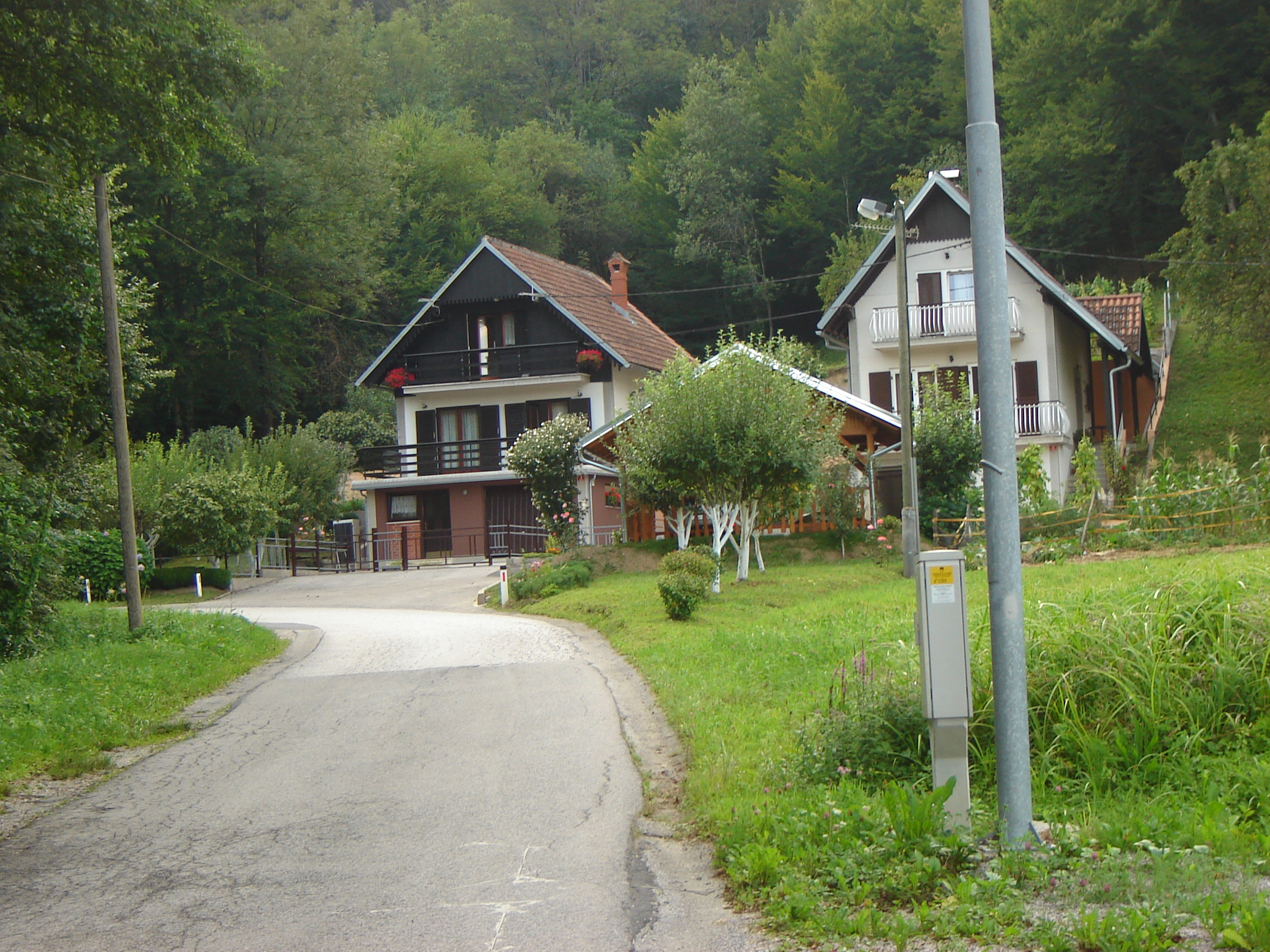 Village Petrina in Kostel municipality